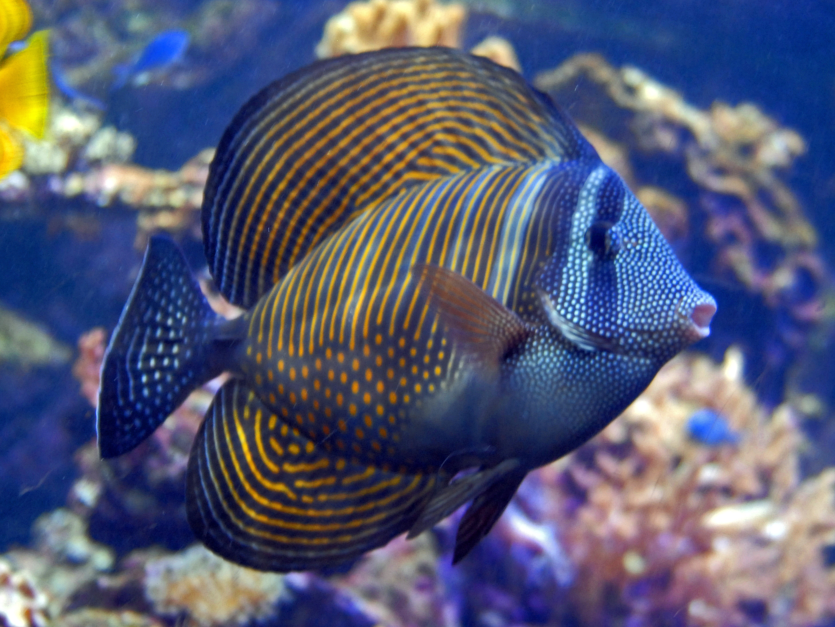 Zebrasoma desjardinii displaying its soft dorsal and anal fins